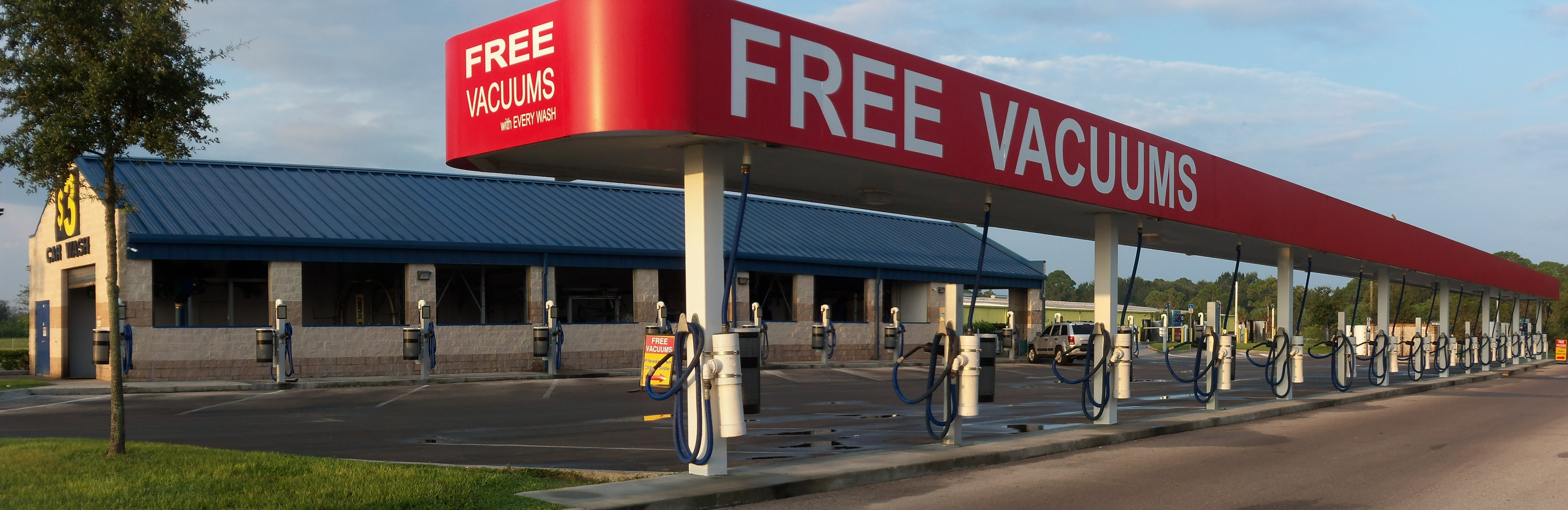 Automotive vacuums in Bayonet Point, Florida. Although the sign says "free", a paid car was is required first.